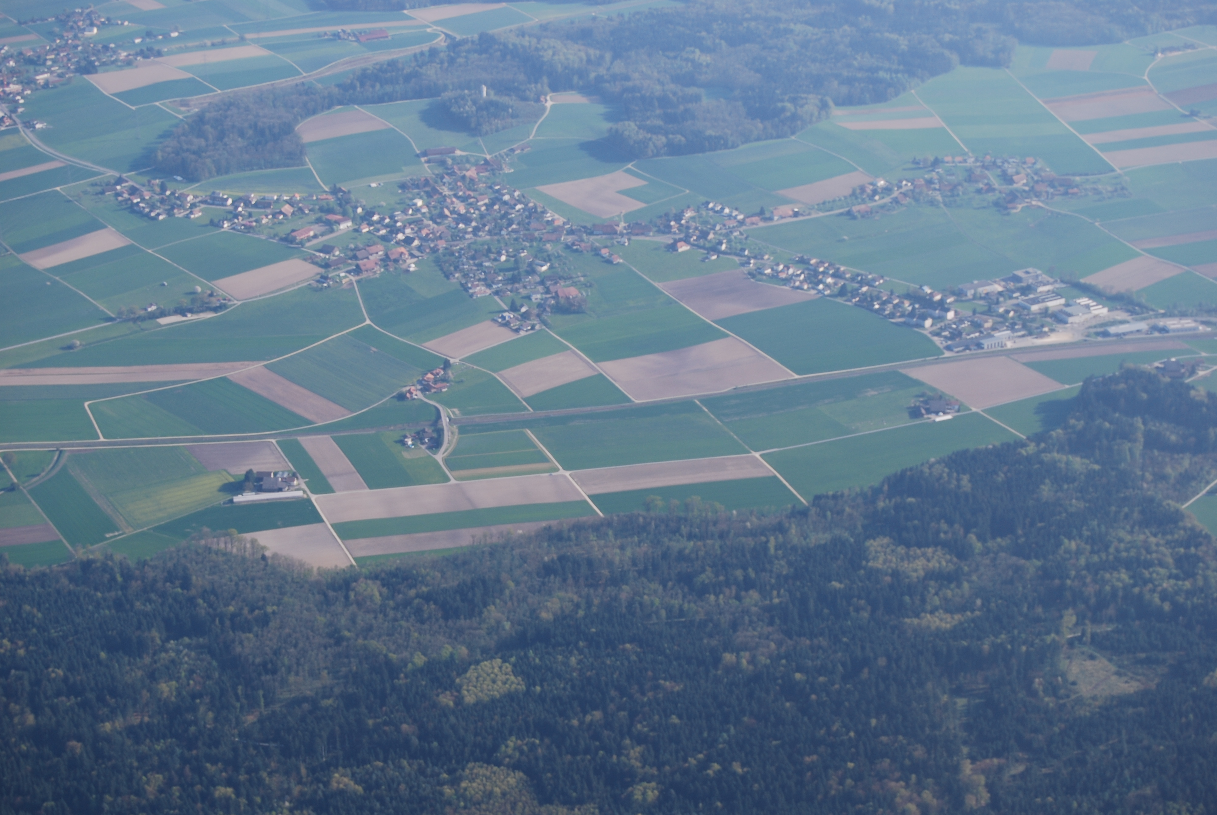 Etziken and Hüniken, canton of Solothurn, Switzerland